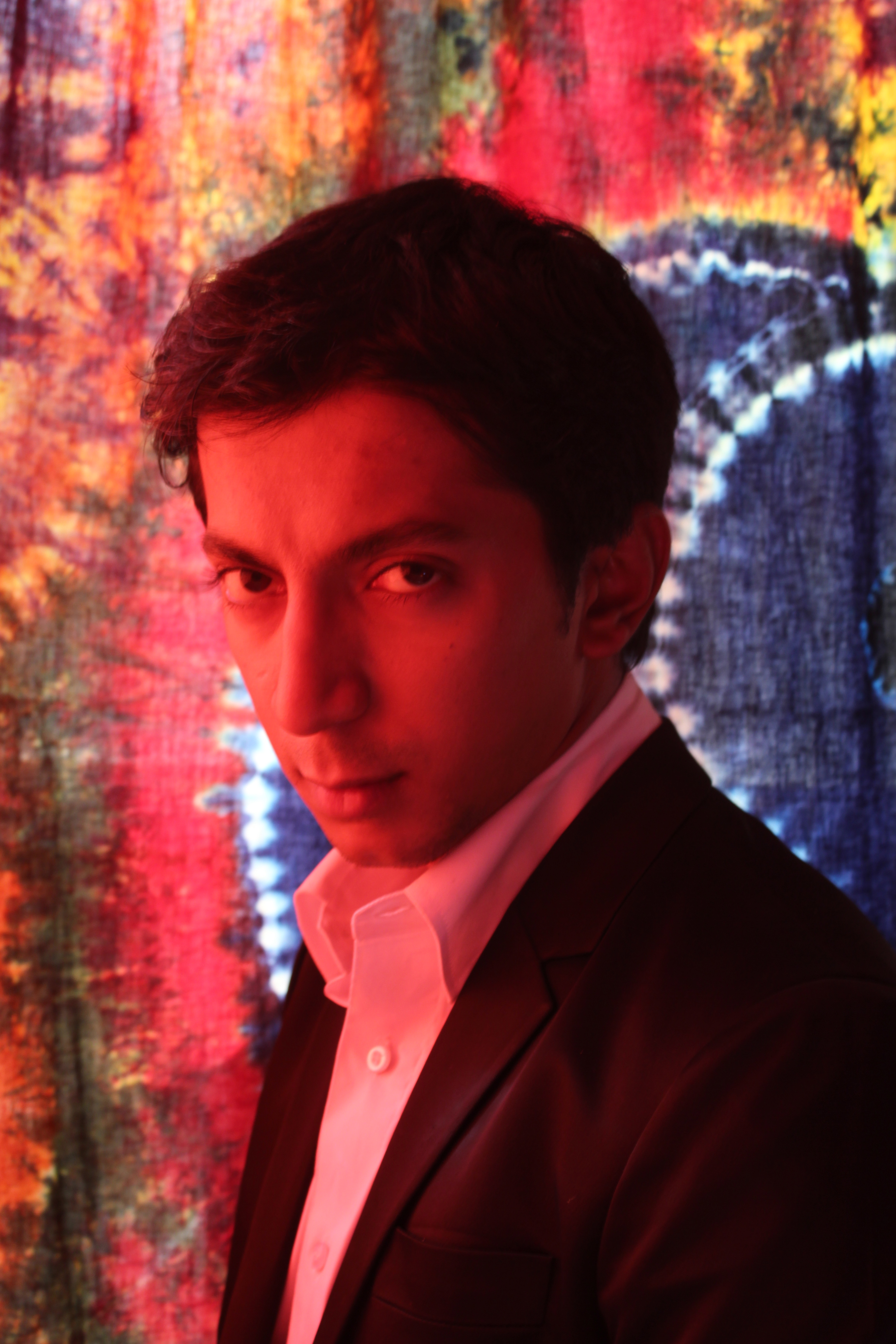 A Photograph of Anshuman Jha clicked at the Bandra studio of artist Mallika Chabba.